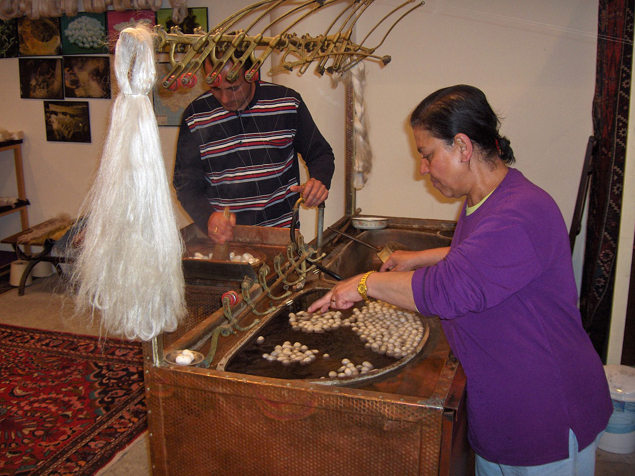 Silk filaments unraveled from silk cocoons; Hadosan, Urgüp, Cappadocia, Turkey. The woman in the photo is picking filaments from the cocoons and feeding them into the reeling machine. Many filaments from different cocoons are combined into one thread. The machine takes up the silk and it is fed onto a reel.